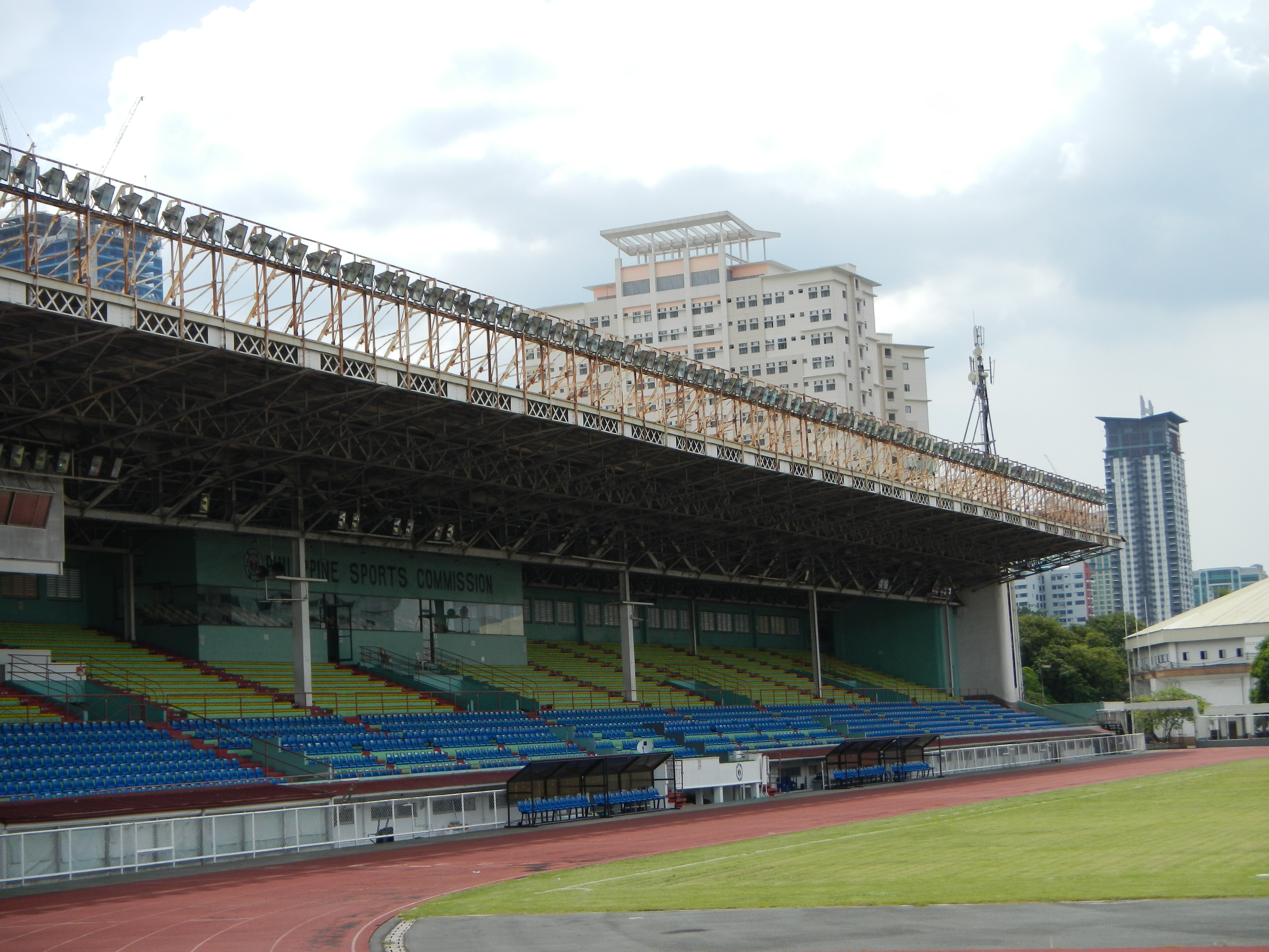 Rizal Memorial Stadium[1] The Rizal Memorial Track and Football Stadium, simply known as the Rizal Memorial Stadium since it is the main stadium within the Rizal Memorial Sports Complex[2], is the national stadium of the Philippines. It served as the main stadium of the 1954 Asian Games and the Southeast Asian Games on three occasions. Prior to its renovation in 2011, the stadium was badly deteriorated and was unfit for international matches. The stadium is also officially the home of the Philippines national football team. It is owned by the Philippine Sports Commission[3]